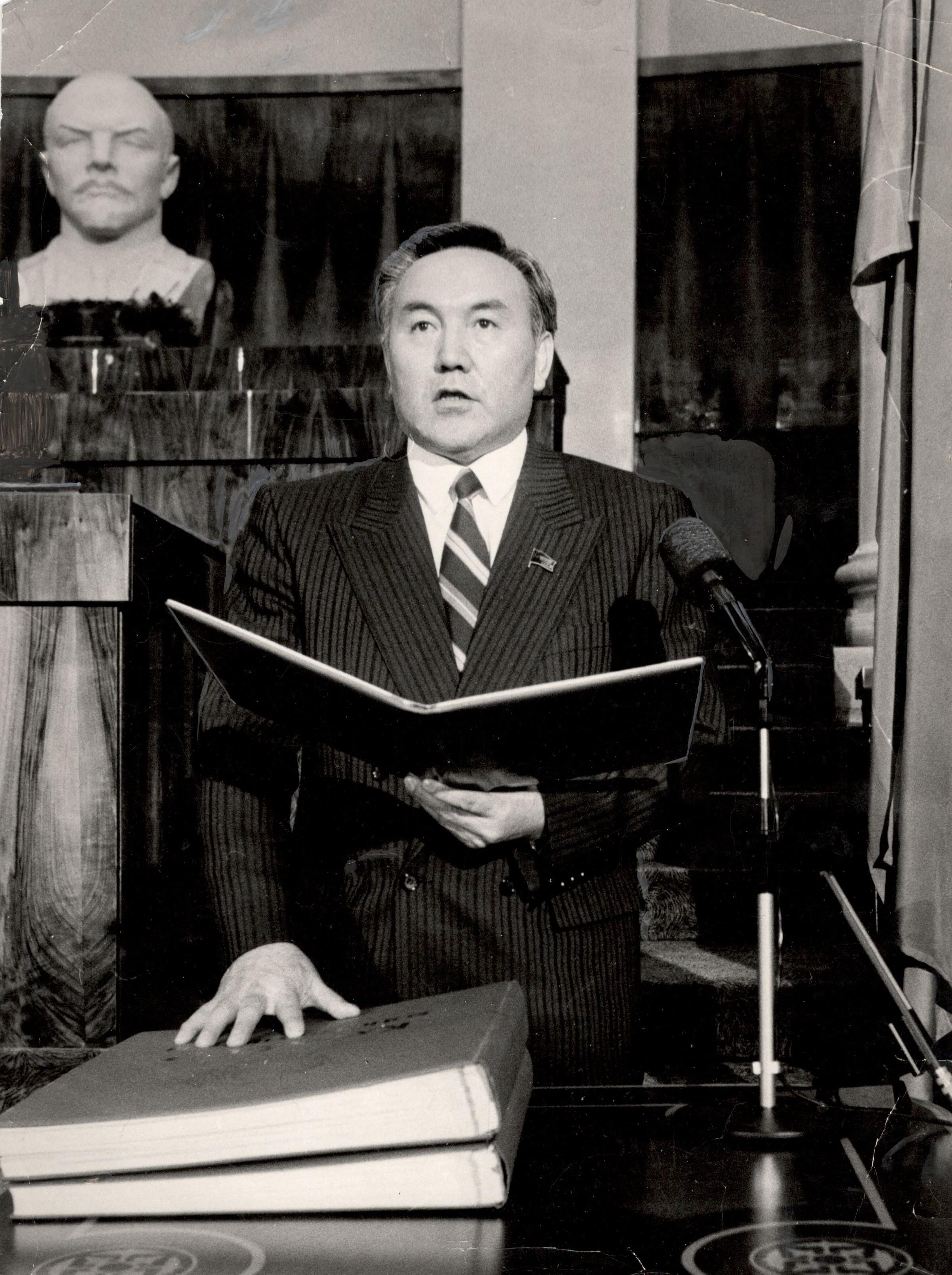 Nazarbayev is swearing in.